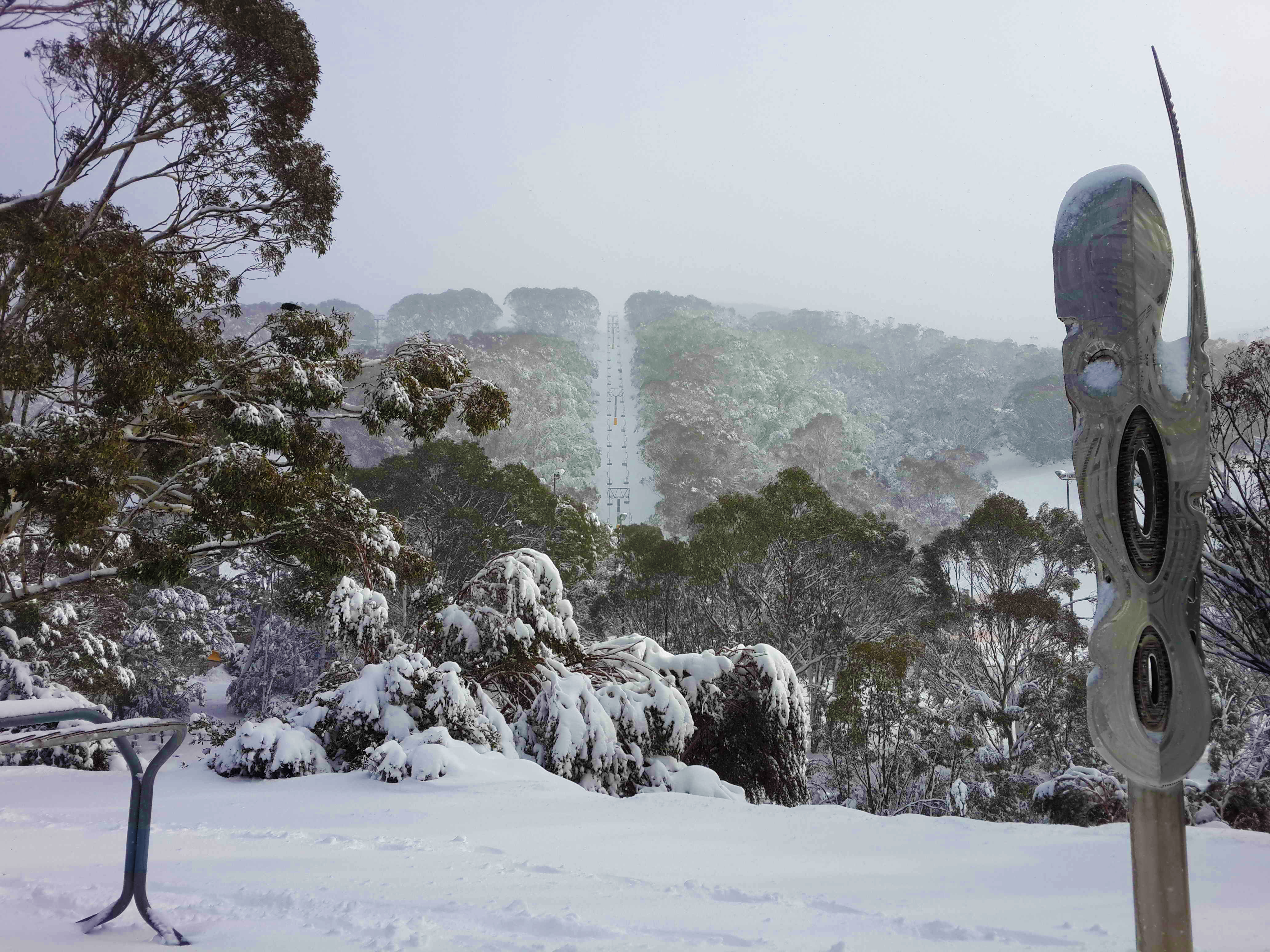 Perisher Valley, New South Wales